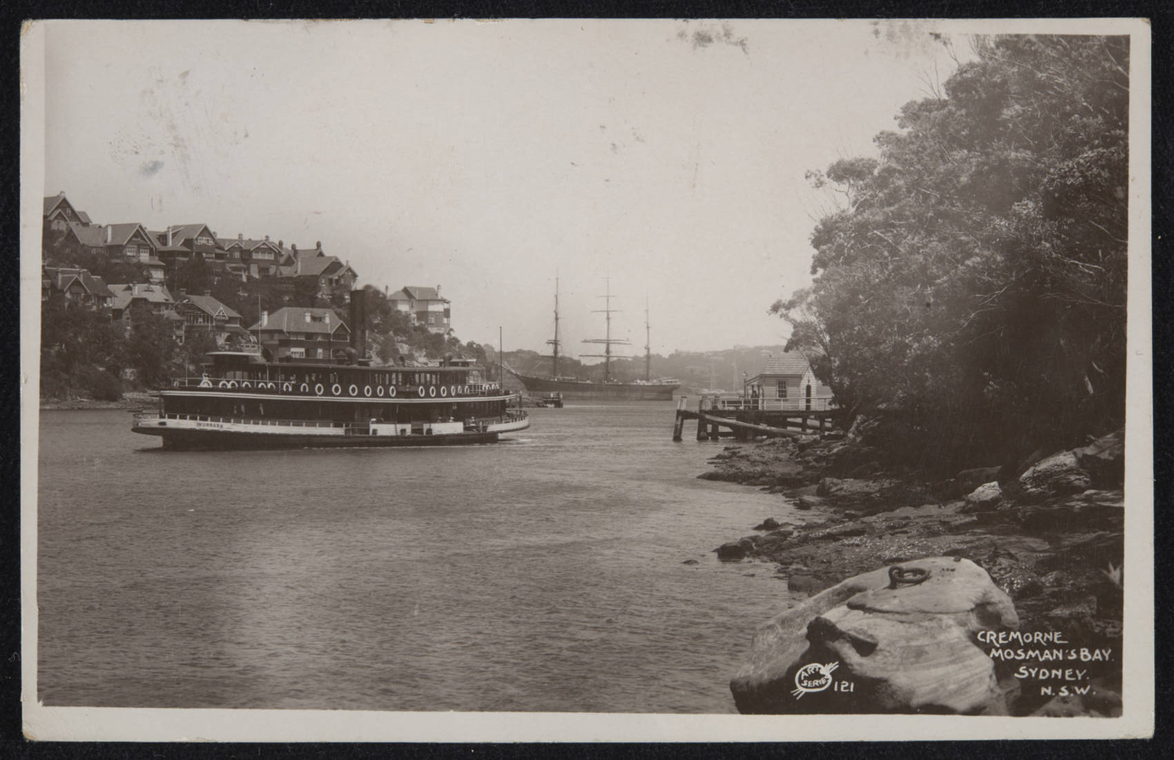 Sydney Ferries Limited K-class ferry, Kurraba, leaving Old Cremorne Wharf in Mosman Bay, c. 1909